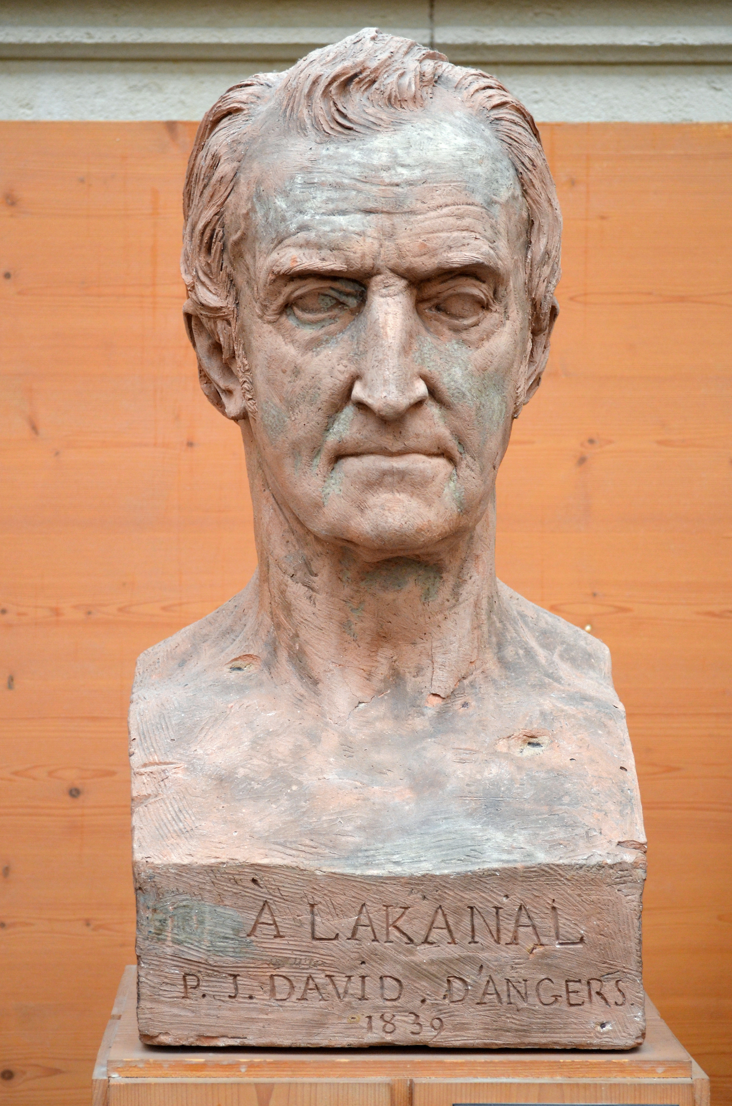 Bust of Lakanal by sculptor David d'Angers (1839). Exhibited in David d'Angers gallery, Angers, France.